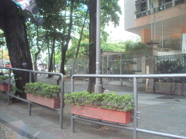 José de Alencar Square, in Flamengo neighborhood, Rio de Janeiro city, Brazil.